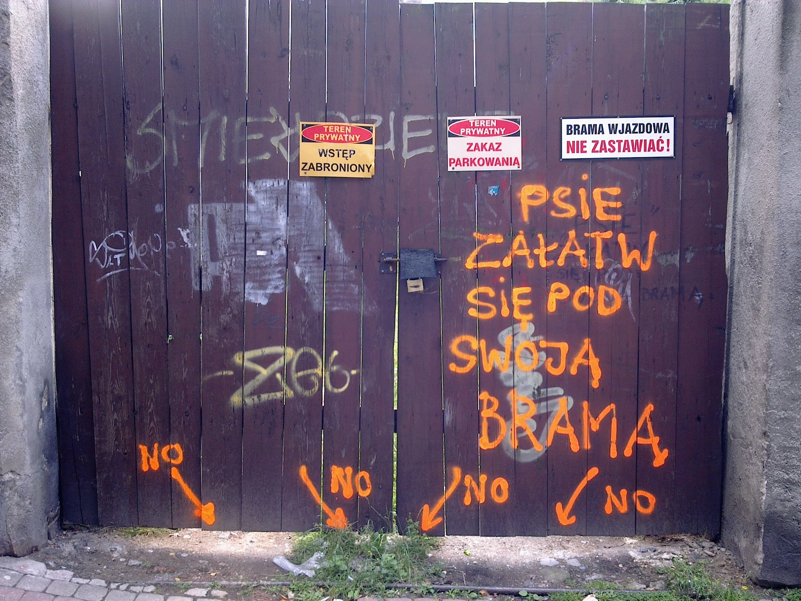 Bytom, Poland. Private property gate with spray painted suggestion that a dog should urinate at his own gate.